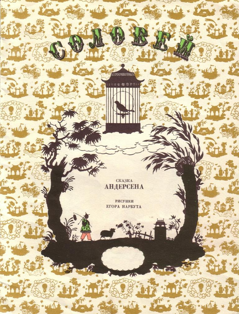 G.I.Narbut. A cover of the book of a fairy tale of G.H.Andersen "Nightingale"